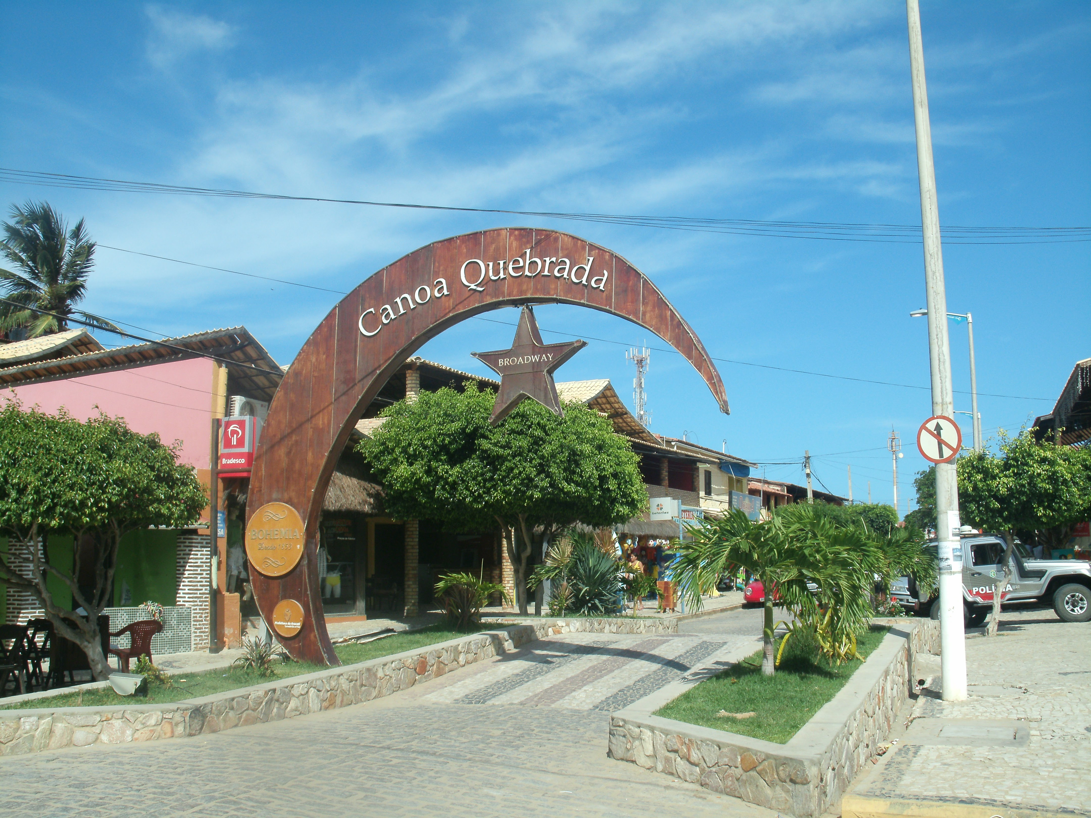 Praia de Canoa Quebrada - Broadway